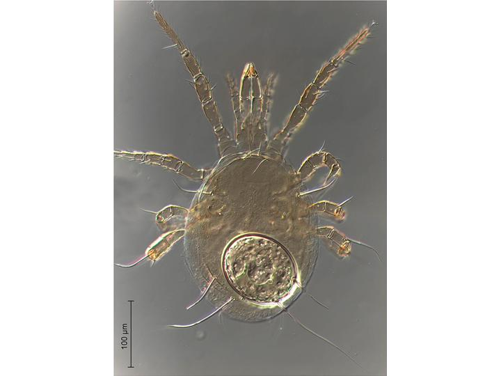 Amblyseius largoensis Magnification: 20×